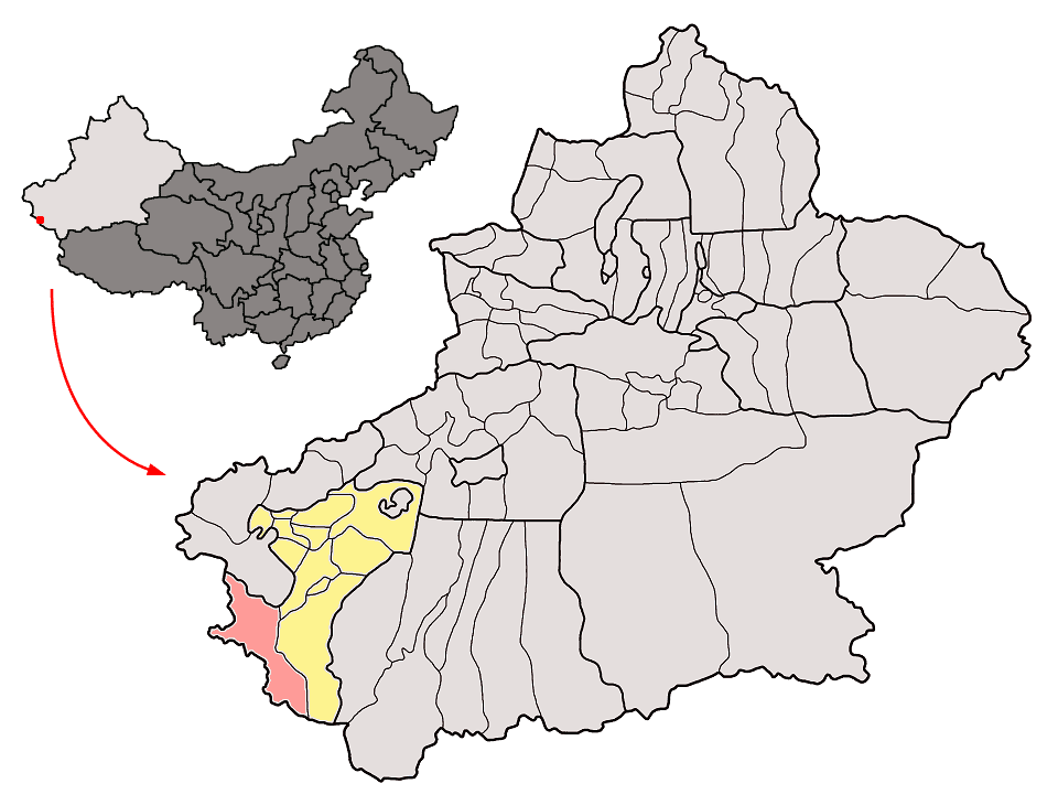 Location of Taxkorgan County (pink) and Kashgar Prefecture (yellow) within Xinjiang autonomous region of China Map drawn in september 2007 using various sources, mainly : Xinjiang Uygur autonomous region administrative regions GIS data: 1:1M, County level, 1990 Xinjiang Counties map from